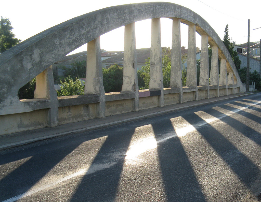 The bridge over the Quillanet at Ornaisons